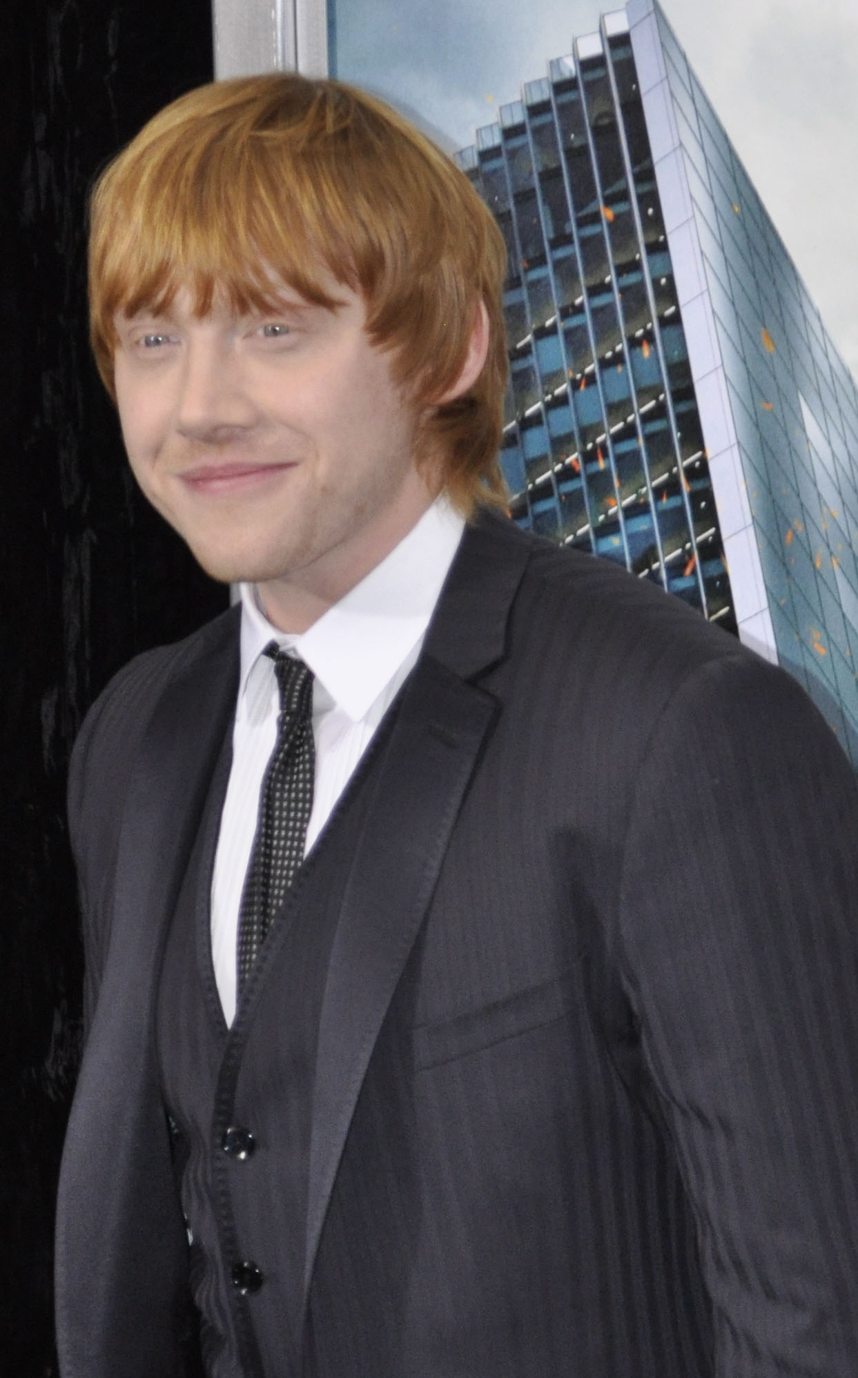 Rupert Grint at the film premiere of Harry Potter and The Deathly Hallows in Alice Tully Center, New York City in November 2010.